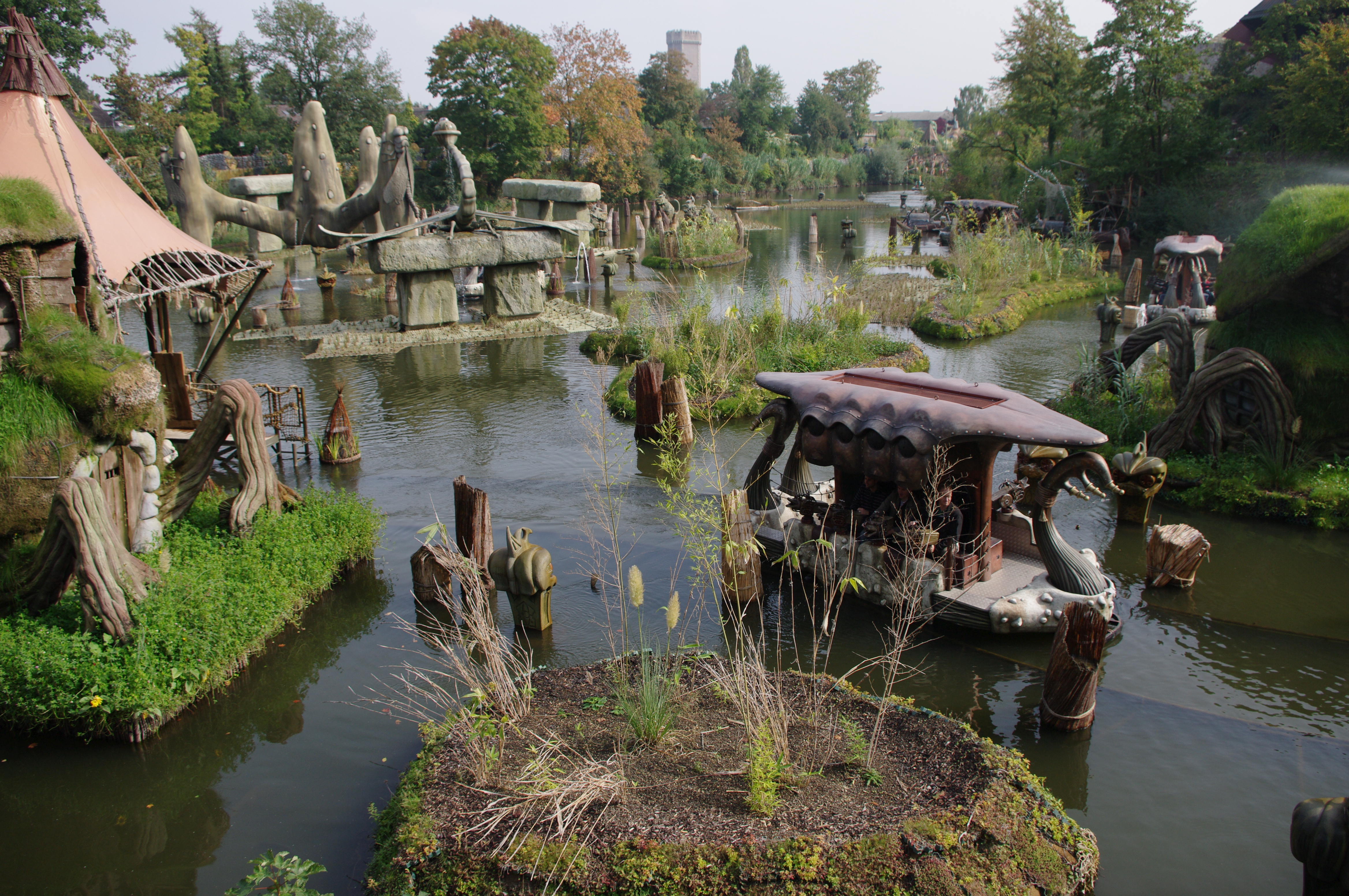 The splash battle Wakobato in Phantasialand